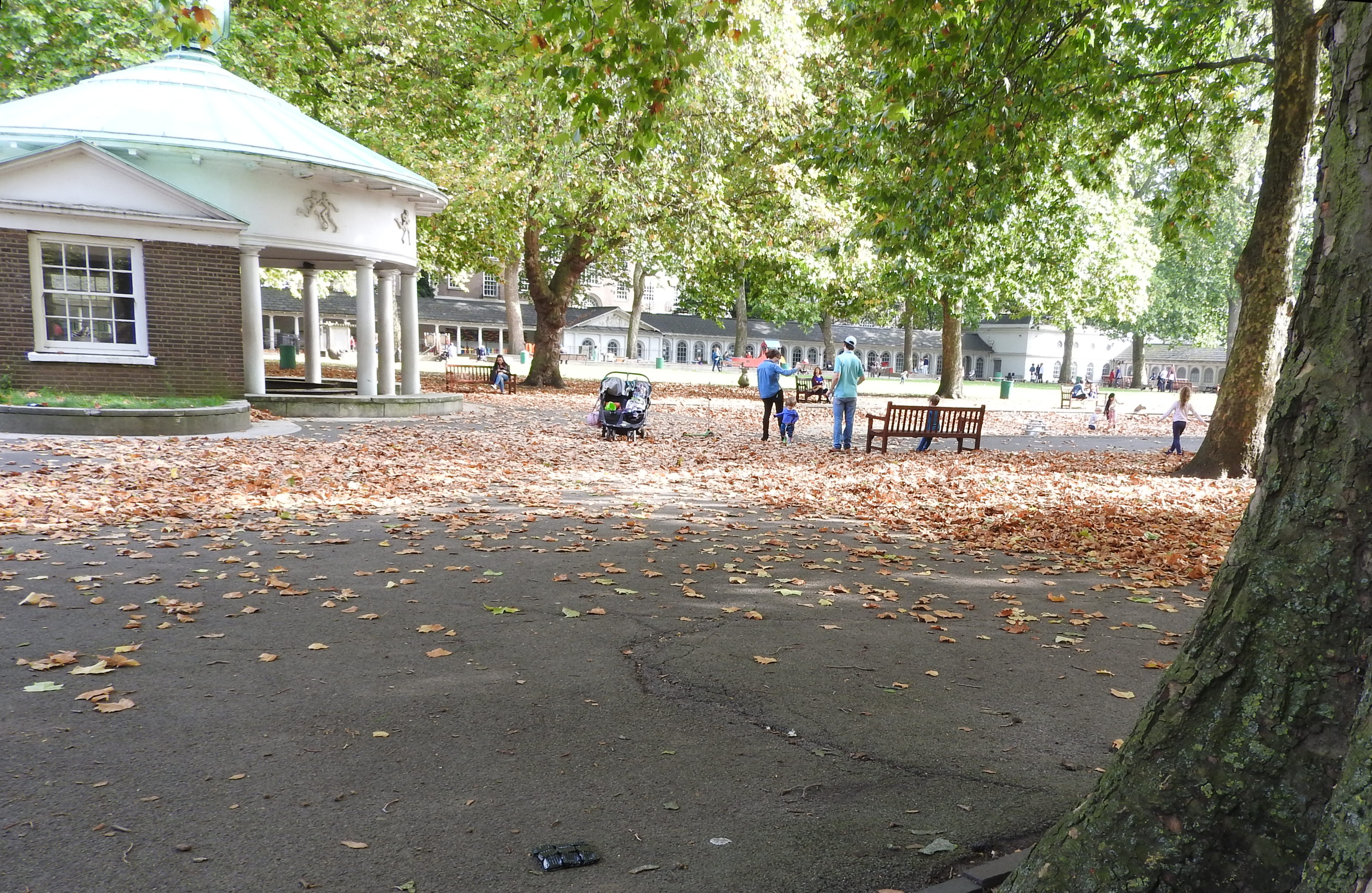 The site of the Foundling Hospital established in 1739 by Captain Thomas Coram were offered for sale as building land in 1926 when owing to changing social conditions the old Hospital was sold and demolished. Keeping the colonnade, local people turned the land into London’s first public children’s playground.